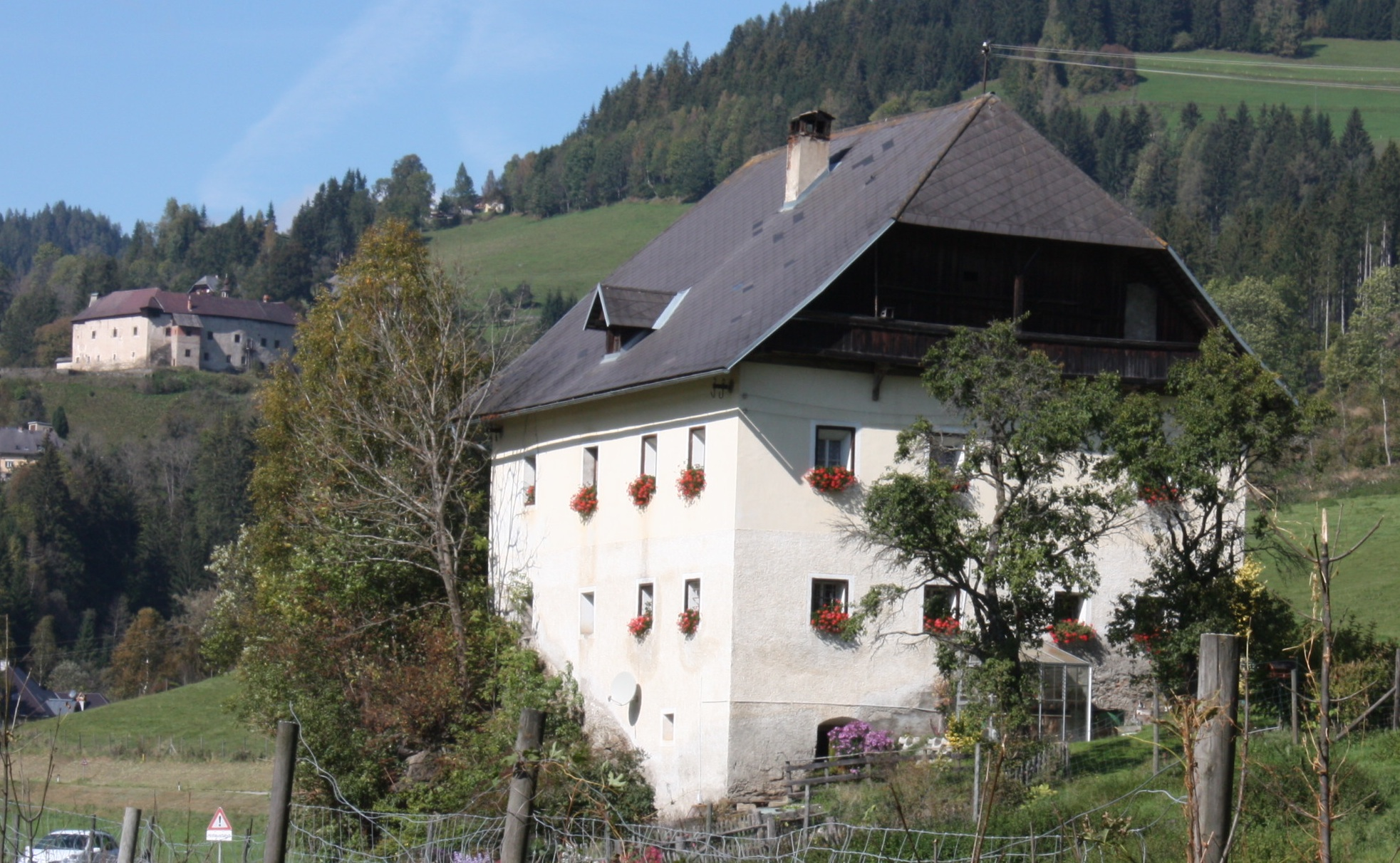 Building Zwatzhof No4 Locality:Zwatzhof Community:Metnitz